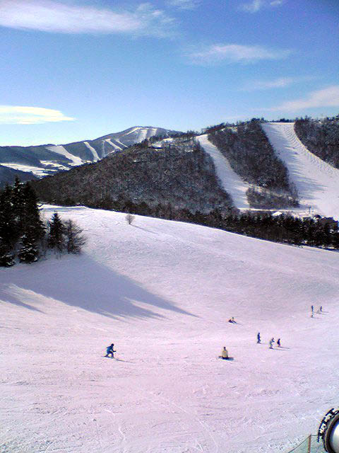 Sugadaira Kōgen Snow Resort